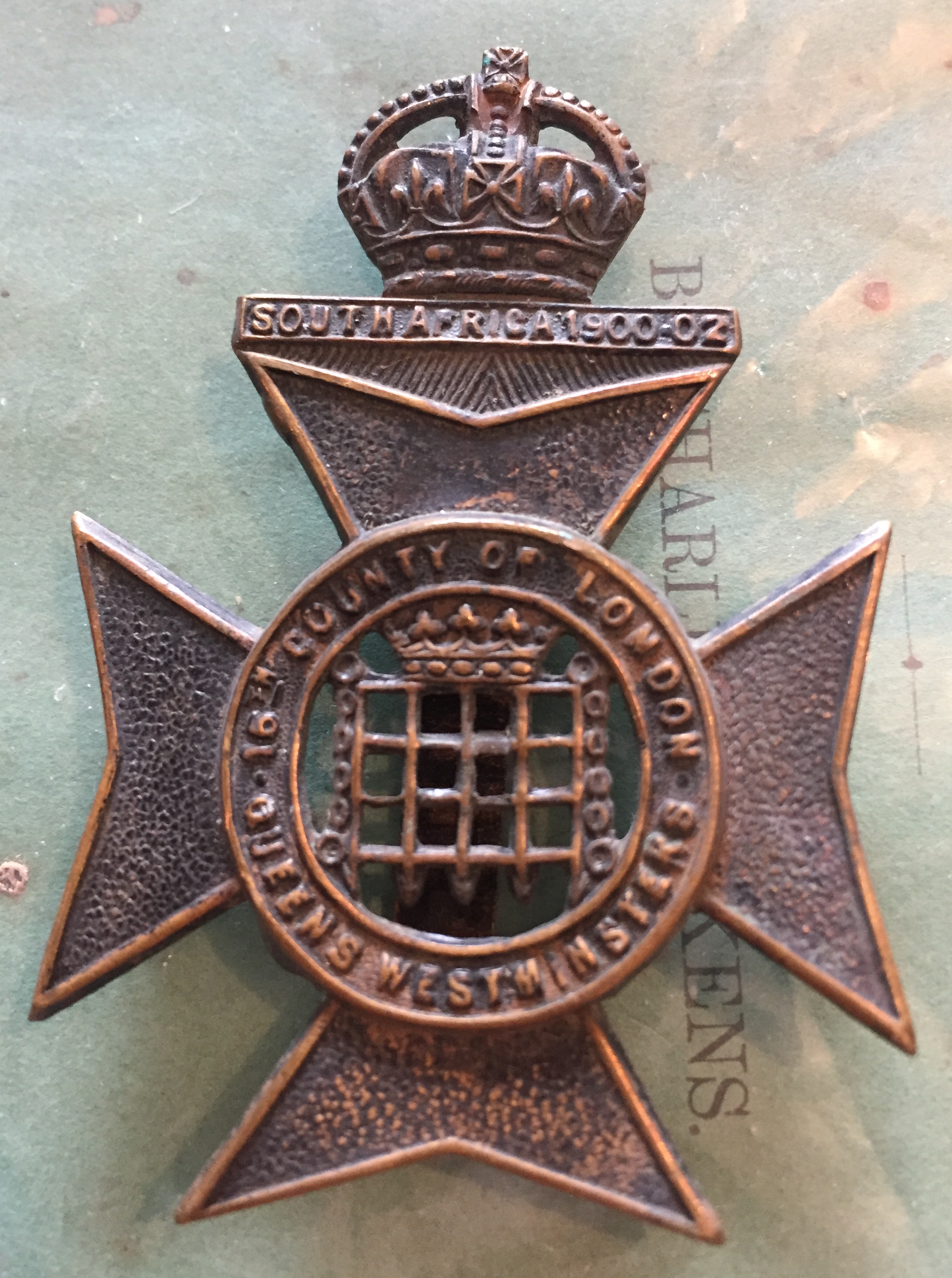 The front of the badge.